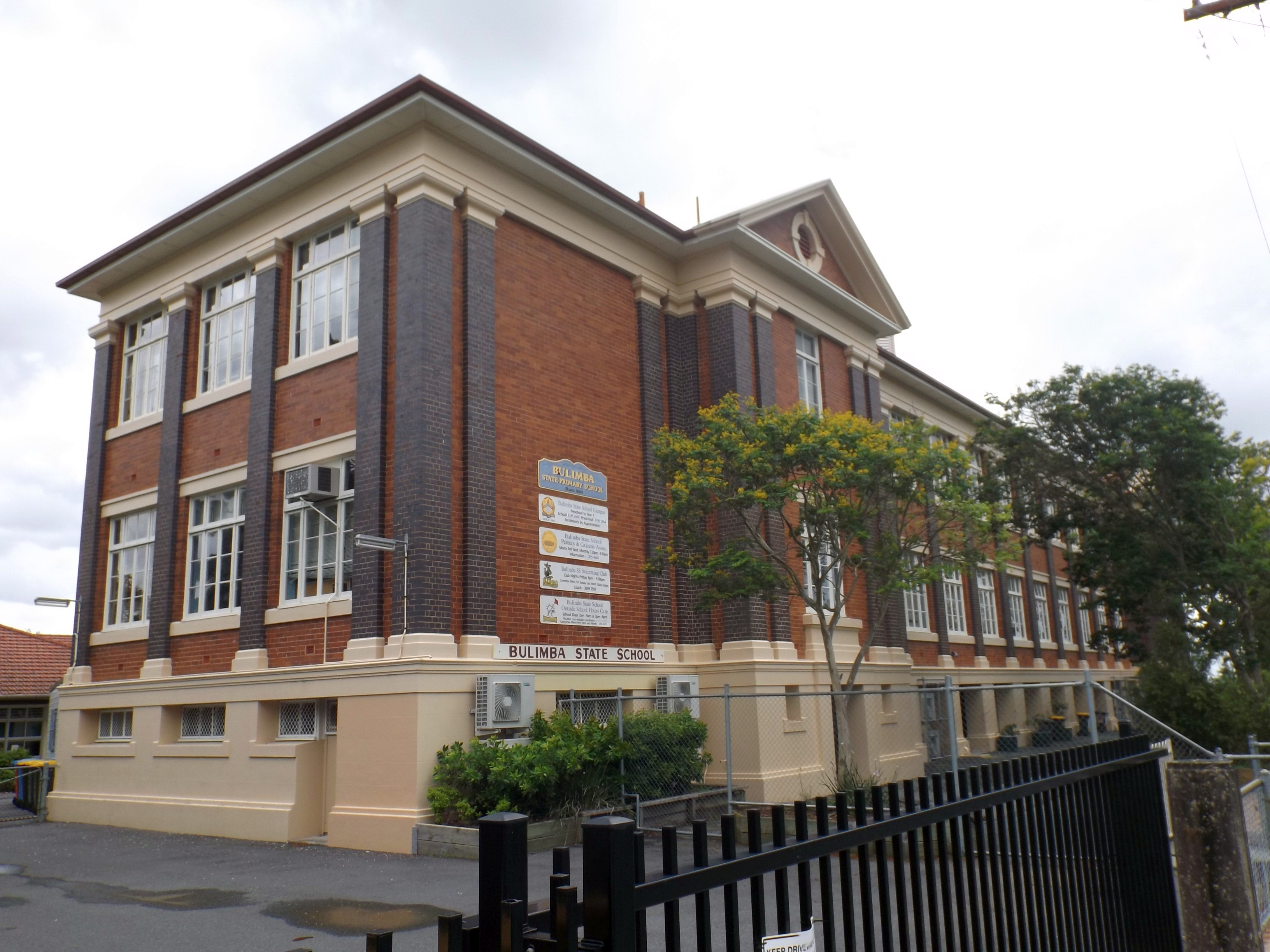 Photo of Bulimba State School at Bulimba, Brisbane, Queensland, Australia.